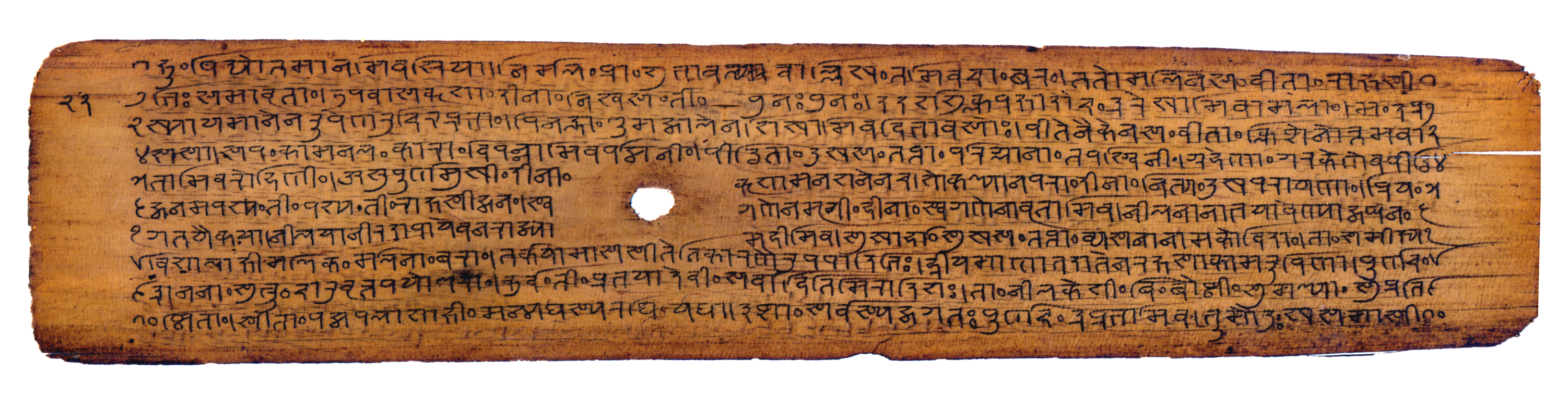 This is folio of a manuscript written in Nandinagari script.